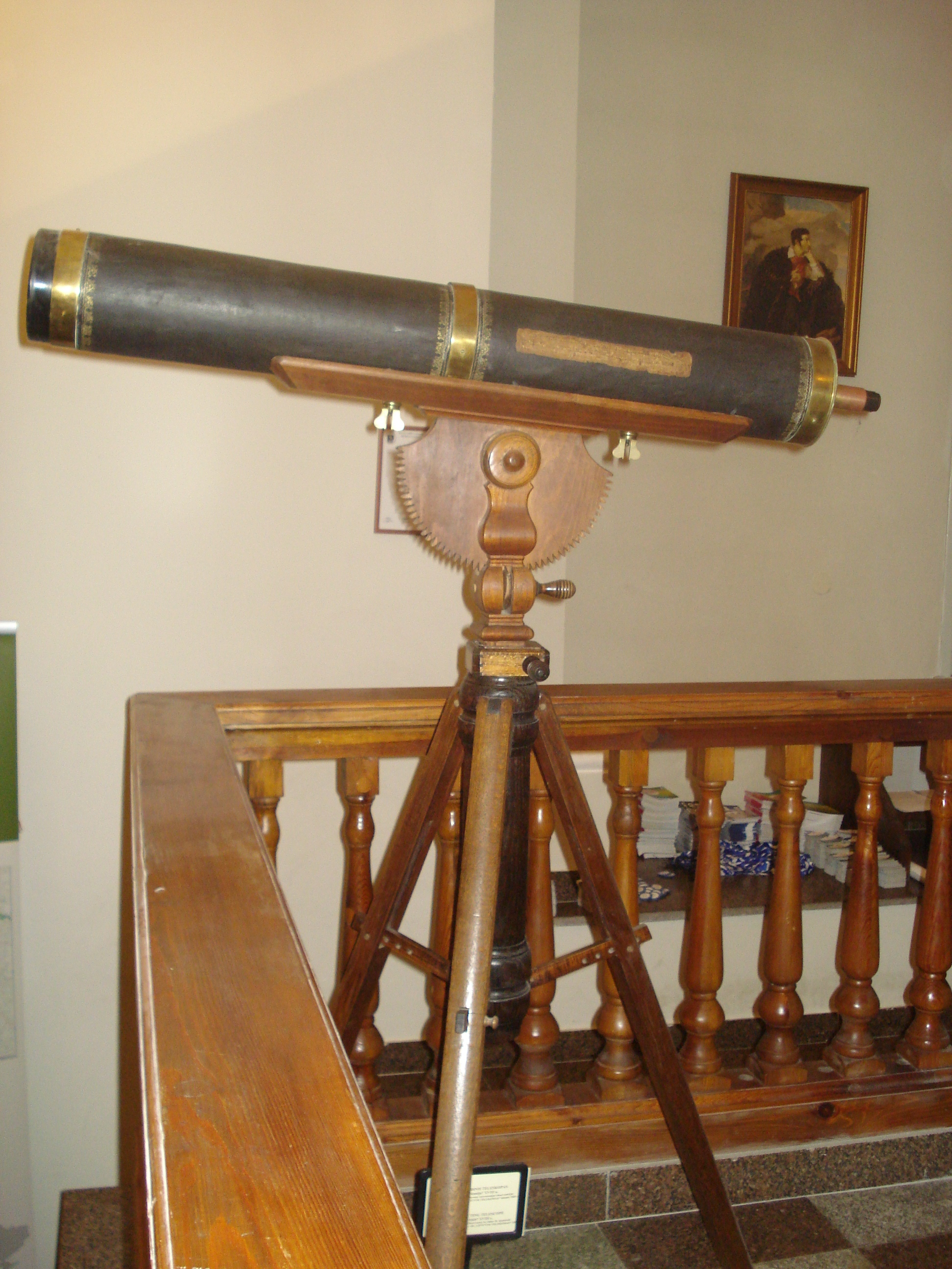 4 foot long telescope manufactured in Germany. In response to pressure from Prof. Tomasz Zebrowski (1714-1758) to provide the Vilnius University Astronomy Department with equipment and telescopes, Mikolaj Radziwill (1702-1762), Grand Duke of Lithuania and Governor of Vilnius, donated. The telescope was covered in Moroccan leather, with an inscription engraved in gold letters on the side: Dono celsissimi principis Michaelis Radziwill palat: Viln. supr: ducis exerc: M.D.L. cessit Acad: Viln: S. J. ad usum astronomicos. White hall of the Vilnius university libraryLietuvių: 12 cm (5 colių) Gregorio sistemos teleskopas. Pirmasis Vilniaus astronomijos observatorijos teleskopas, kurį padovanojo Lietuvos didysis kunigaikštis Mykolas Radvila (1702-1762). Vilniaus universiteto bibliotekos baltoji salė